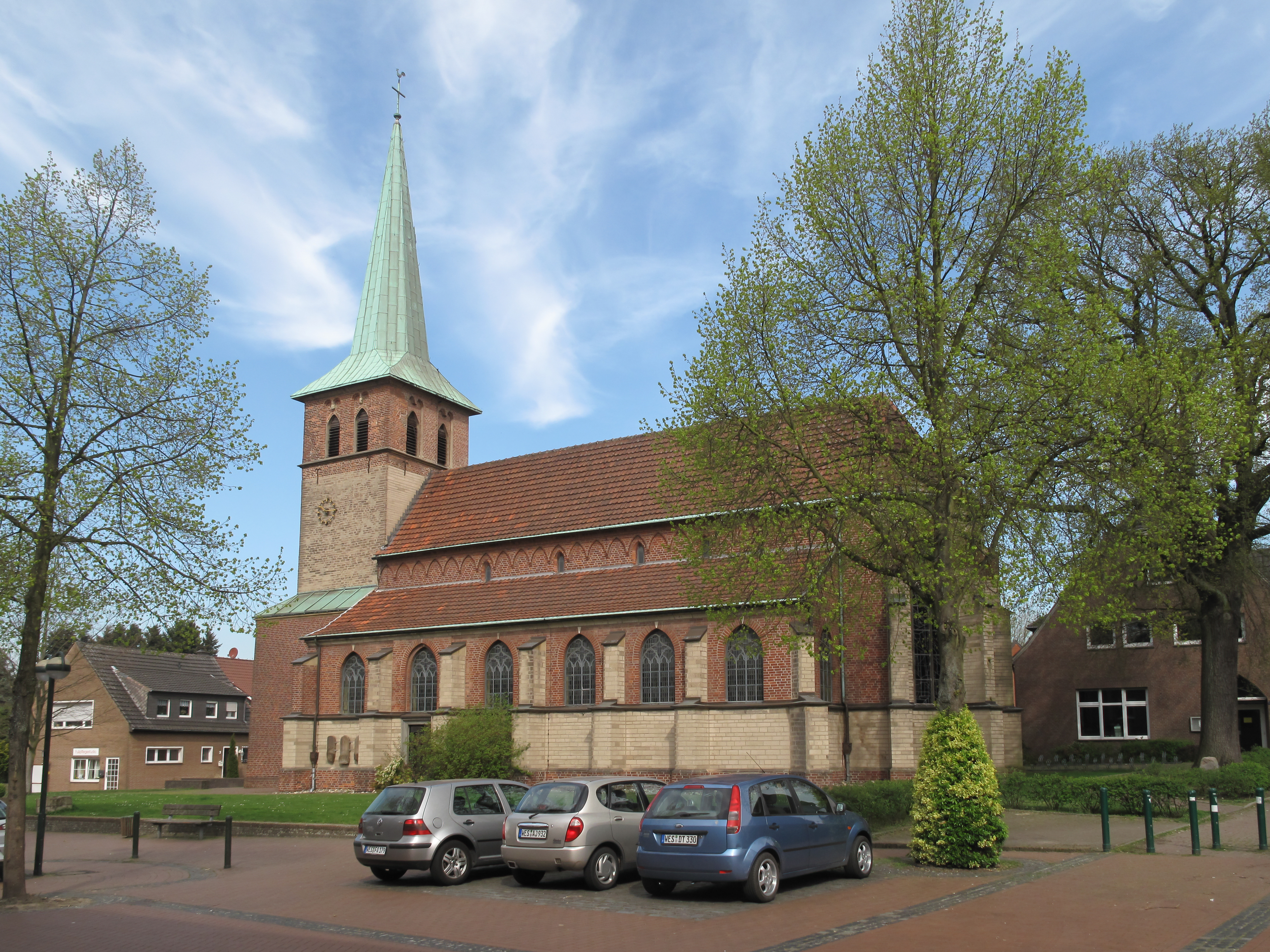 Hünxe, church